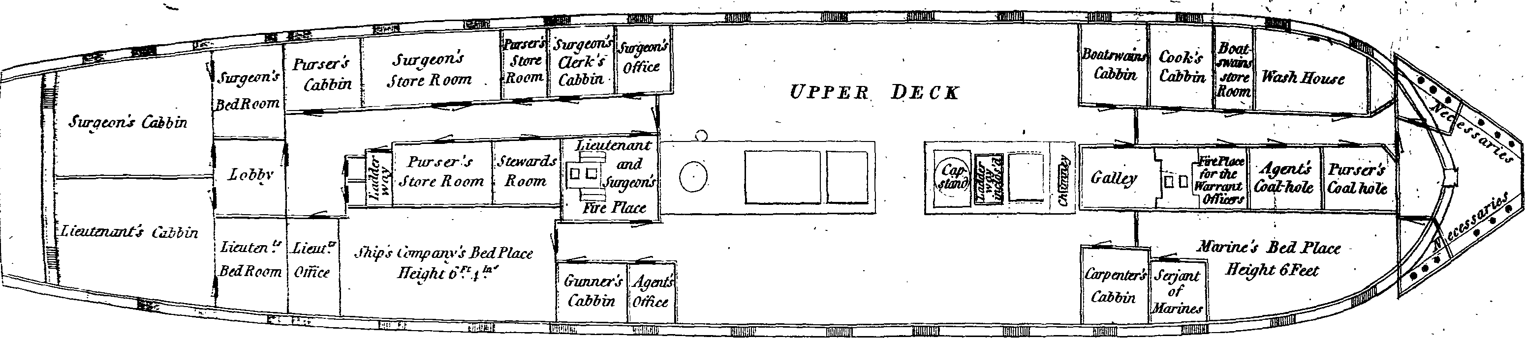 Fleuron from book: An account of the experiment made at the desire of the Lords Commissioners of the Admiralty, on board the Union hospital ship, to determine the effect of the nitrous acid in destroying contagion, and the safety with which it may be employed. In a letter addressed to the Right Hon. Earl Spencer, &c. &c. &c. By James Carmichael Smyth, M. D. F.R.S., Fellow of the Royal College of Physicians, and Physician Extraordinary to His Majesty, published with the approbation of the lords commissioners of the Admiralty.